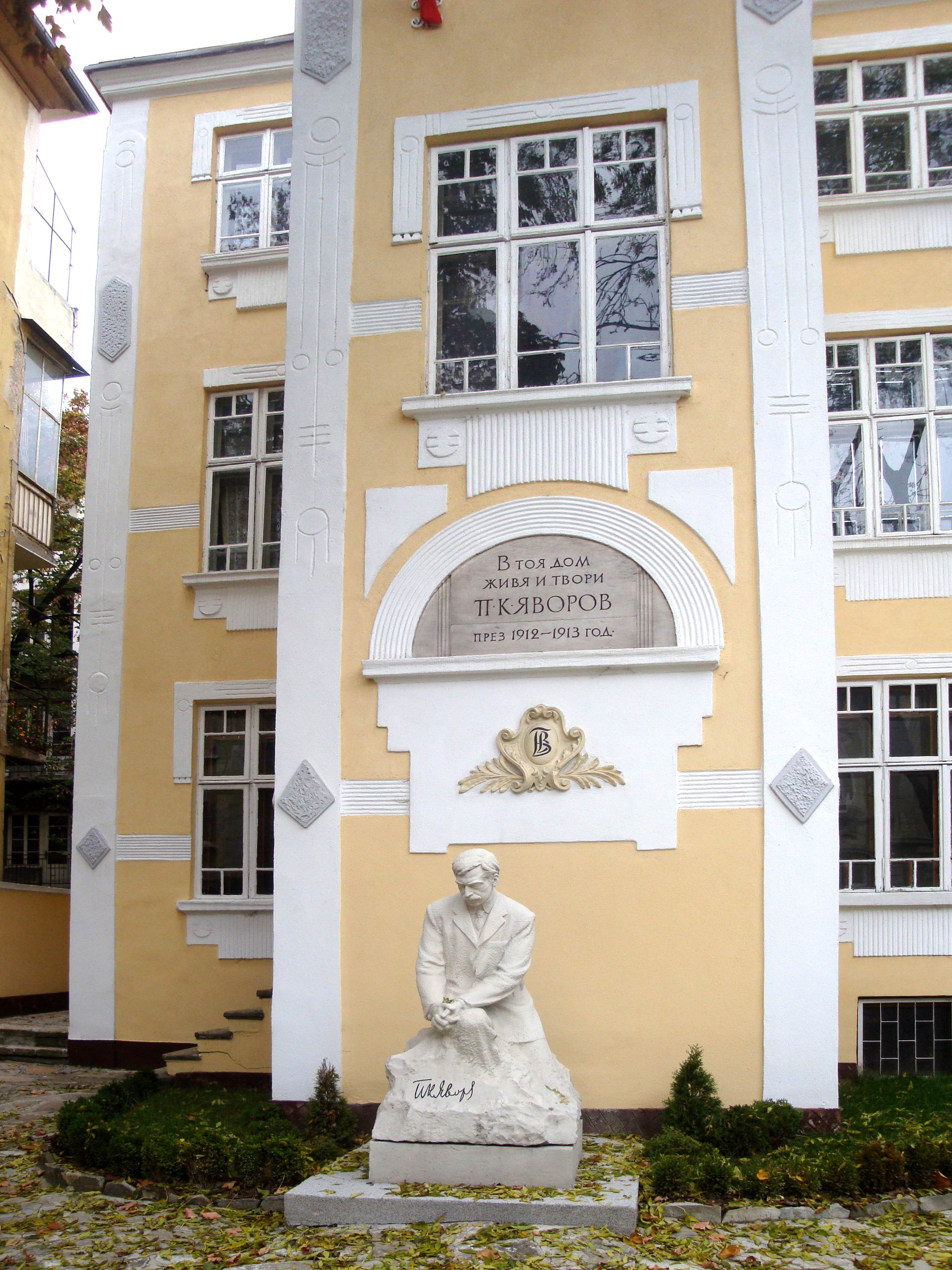 Pejo Javorov house and monument, Sofia, Bulgaria